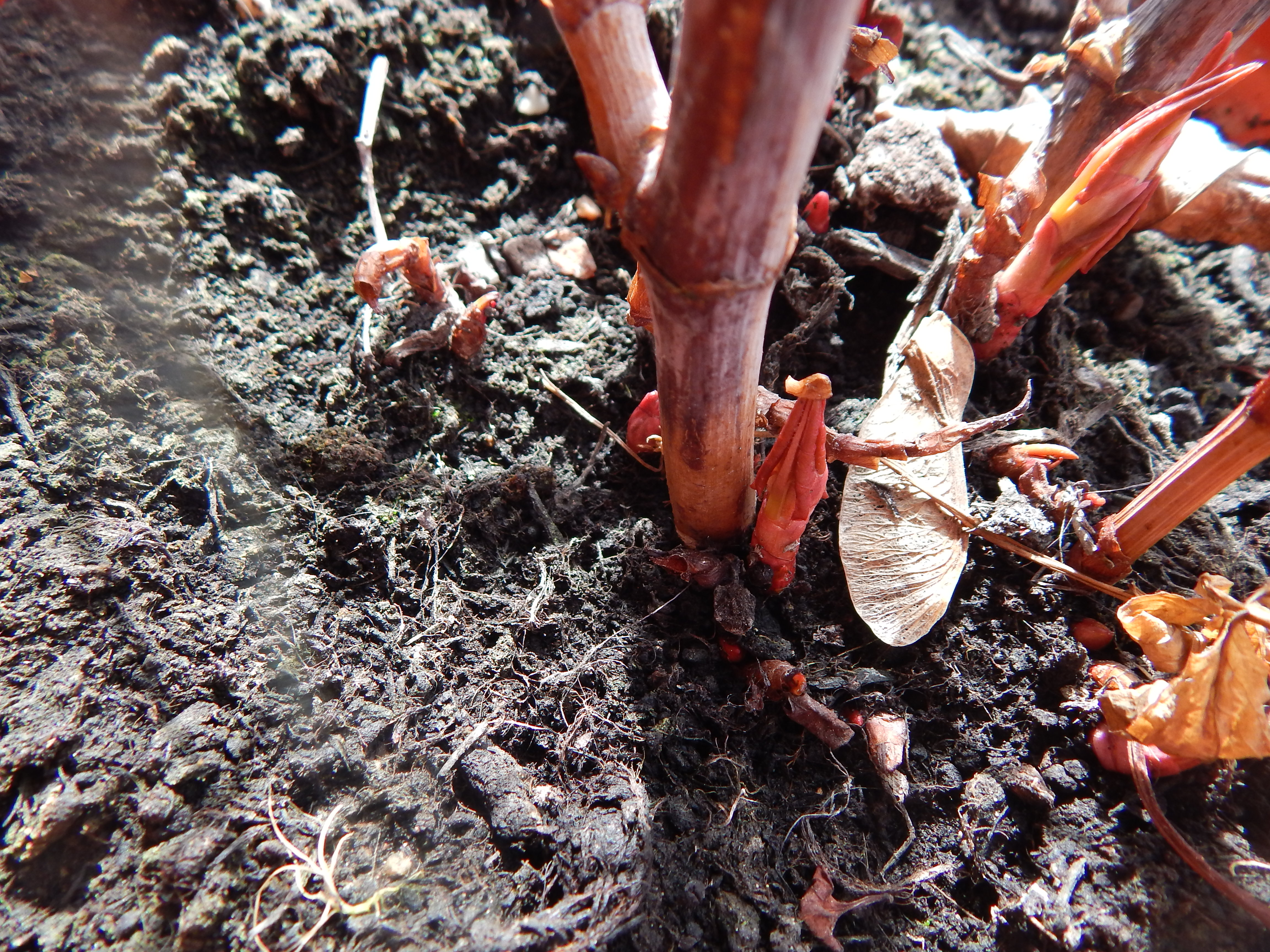 Japanese knotweed (Fallopia japonica) with buds in England.